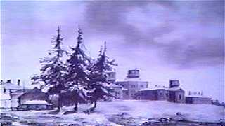 Pulkovo Observatory in 1839, Lithography.